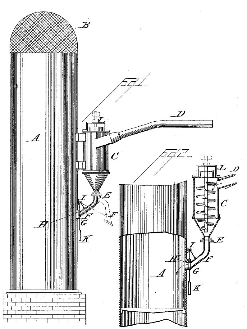 Patent drawing: refuse burner for sawmill waste